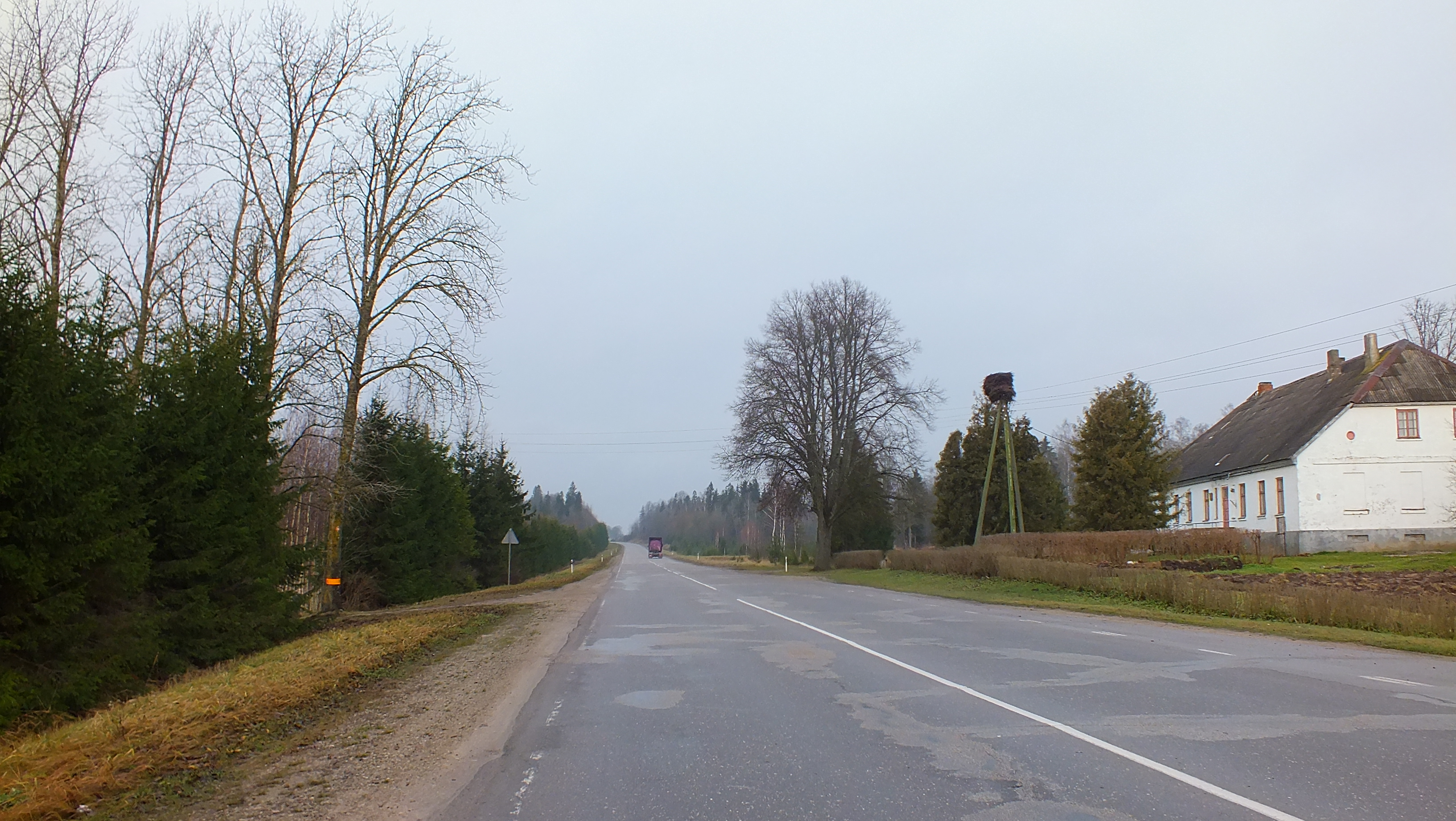 Road A10 in Lībagi